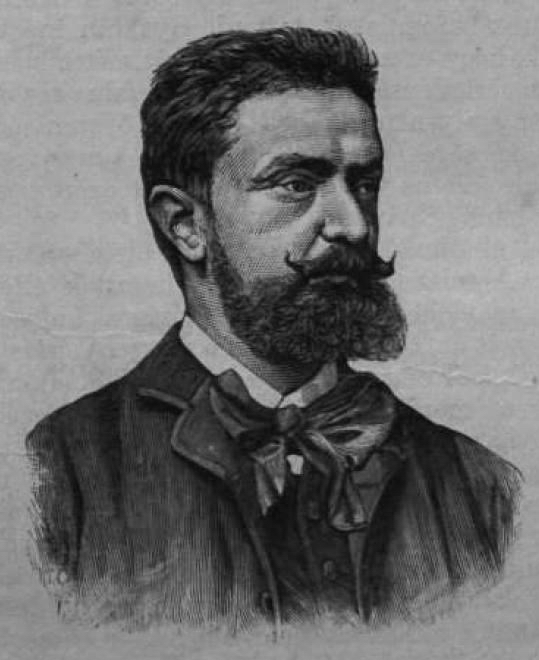 Endre Kemény